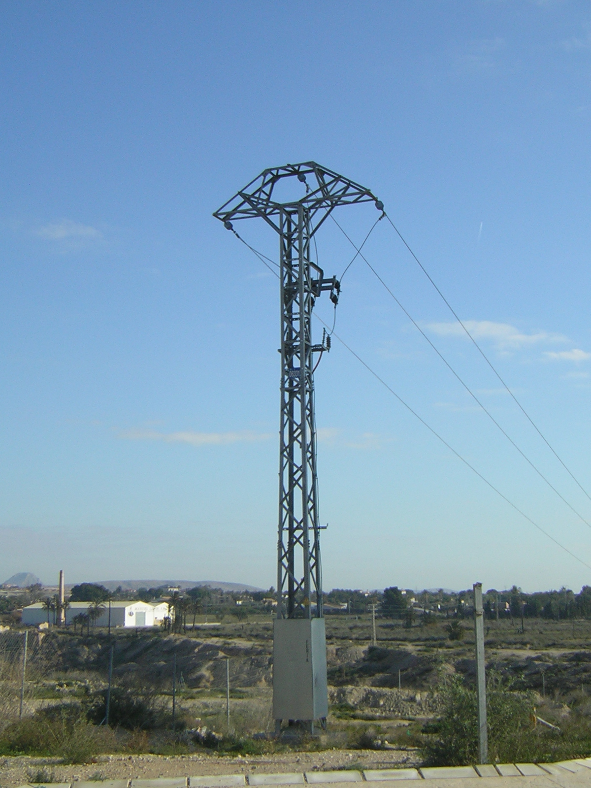 Aerial -underground joinning on a Medium Voltage power line (20 kV)